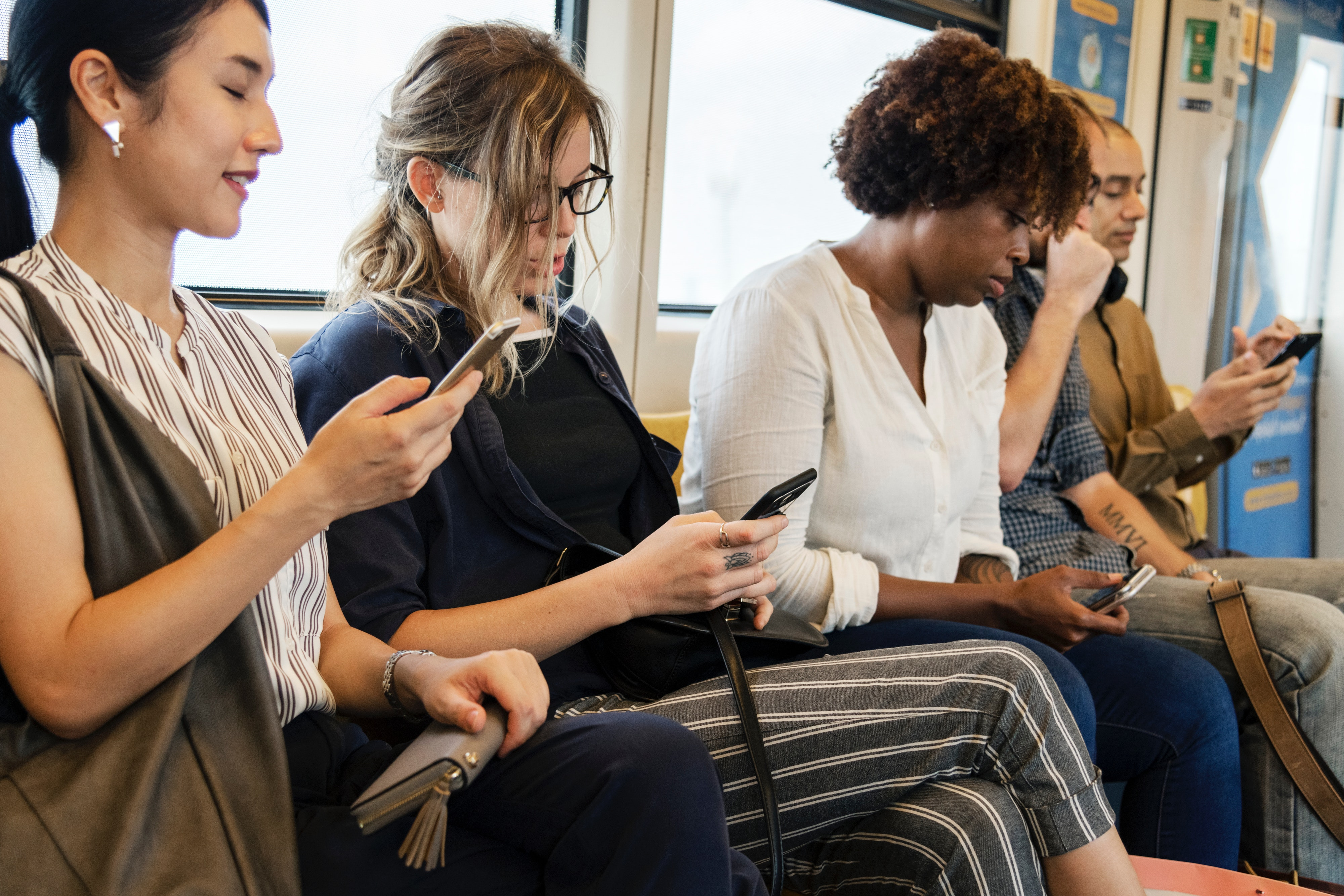 A group of diverse people using smartphones in public.